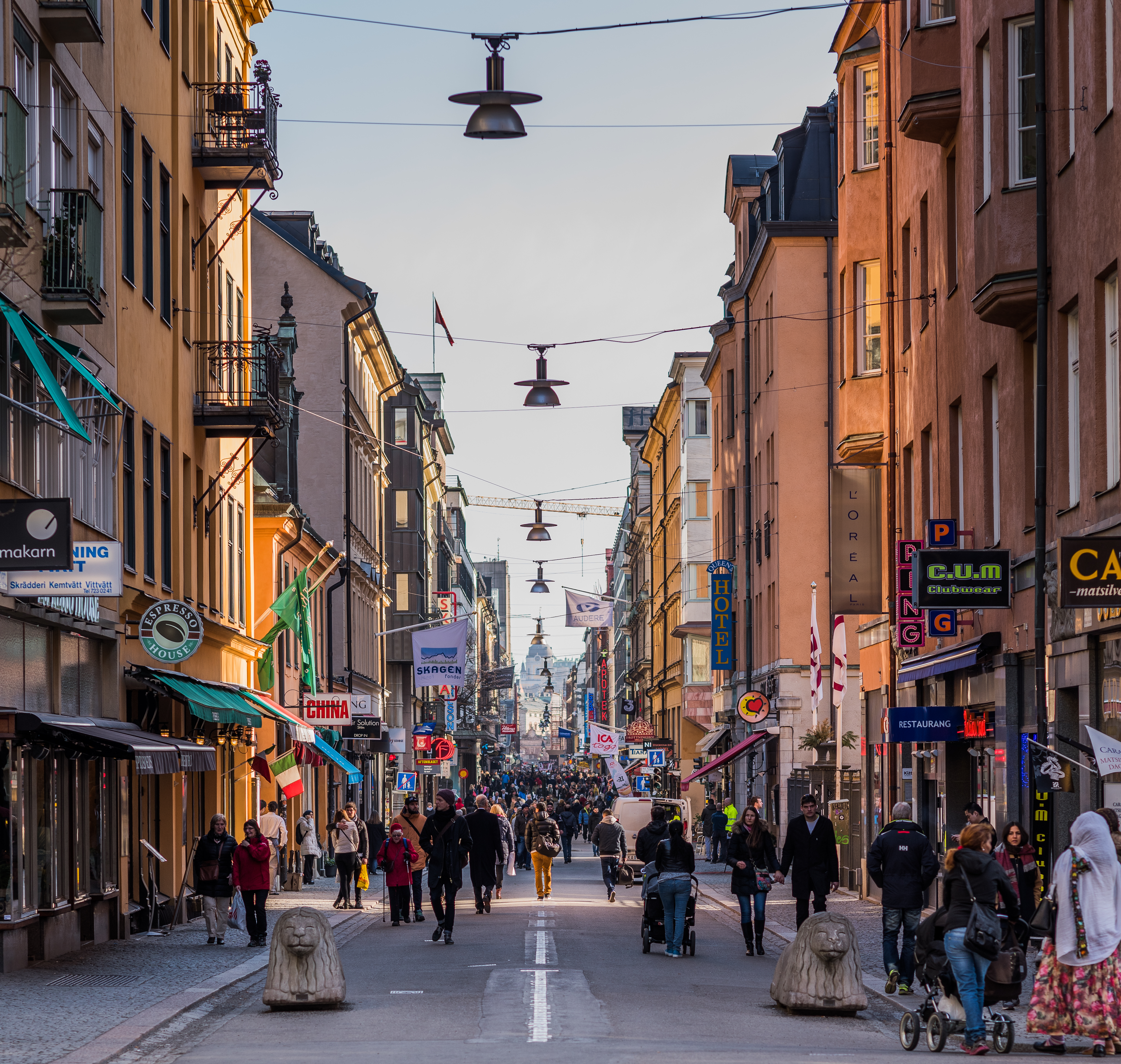 Stockholm March 2015